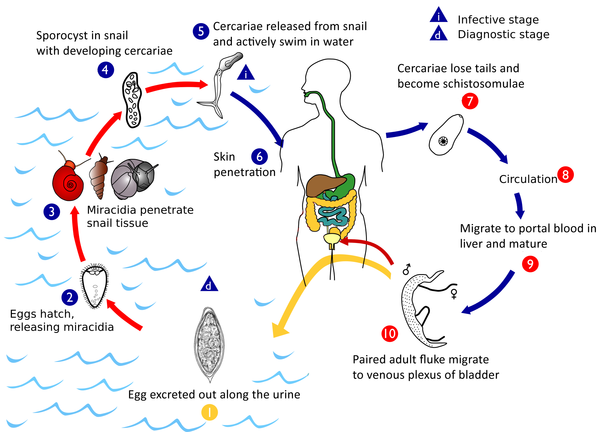 Life cycle of S. haematobium. (Adapted from